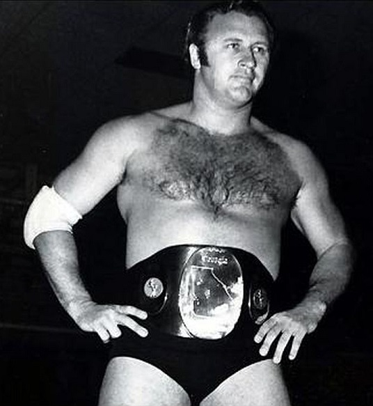 Nick Bockwinkel in 1970, during his tenure in Georgia